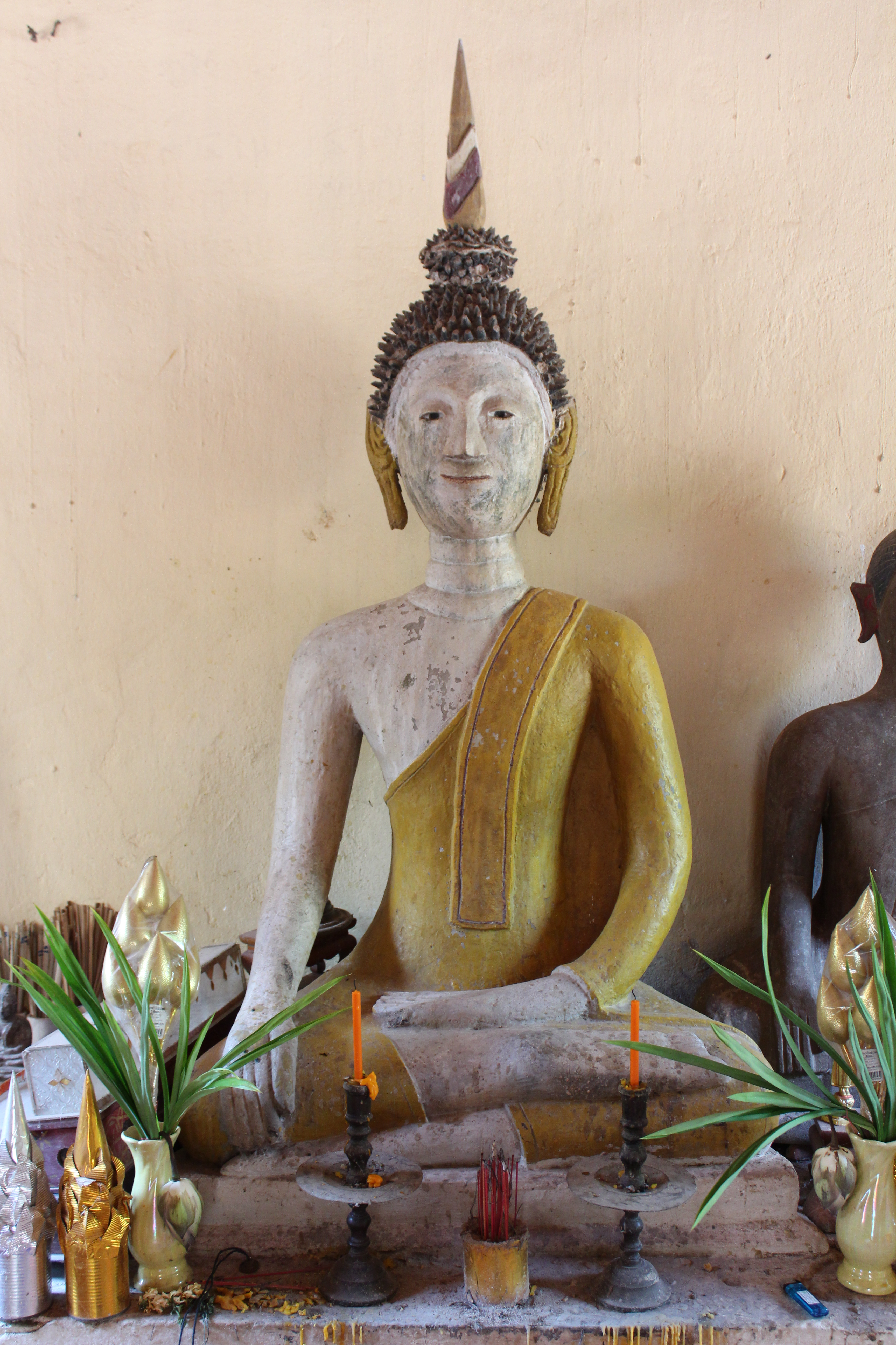 พระประธานปรางค์มารวิชัย